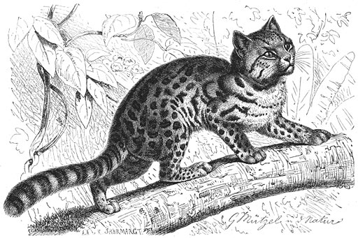 Tĳgerkat (Felis tigrina). Currently Leopardus tigrinus